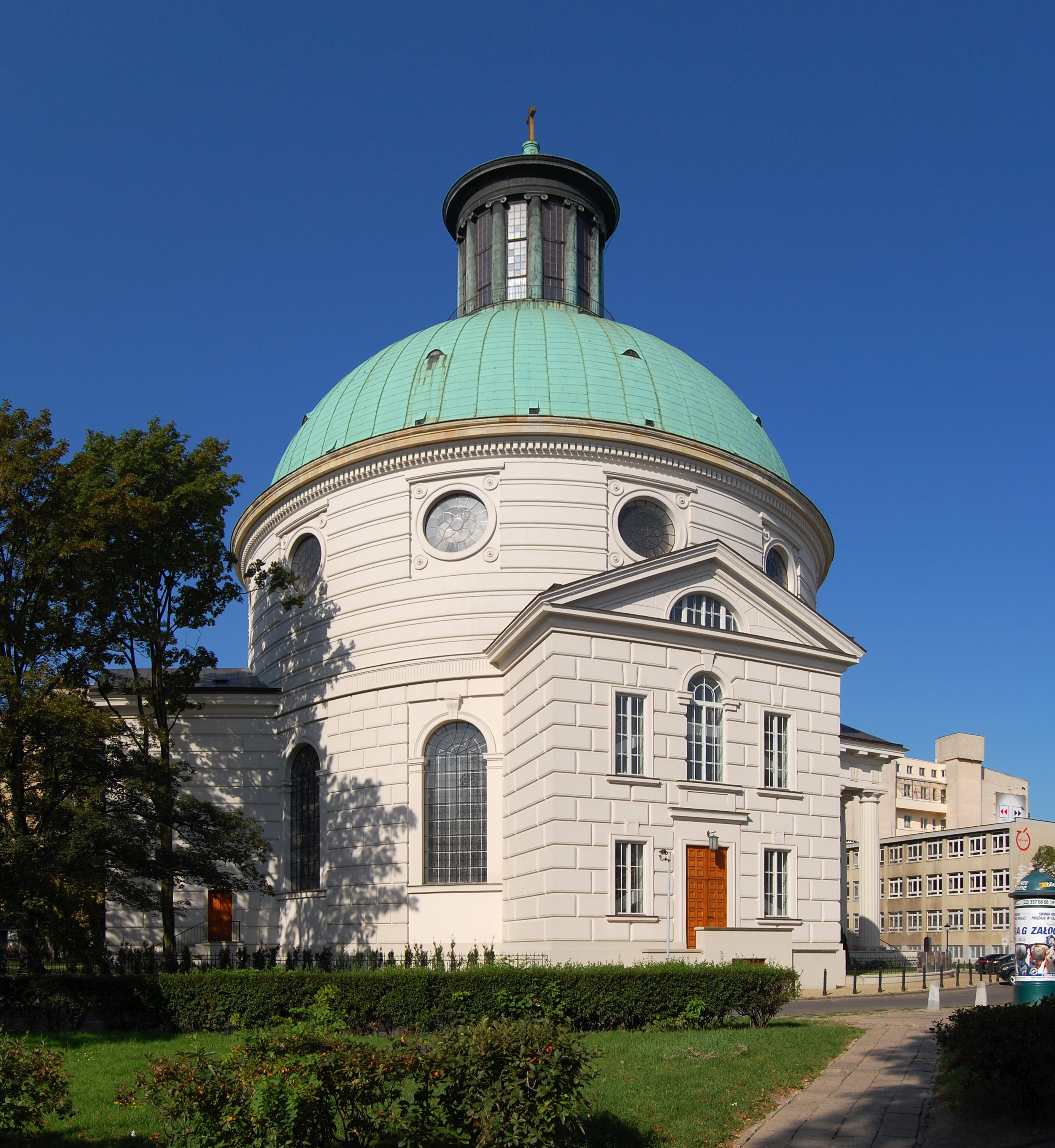 Holy Trinity Church in Warsaw, Poland.